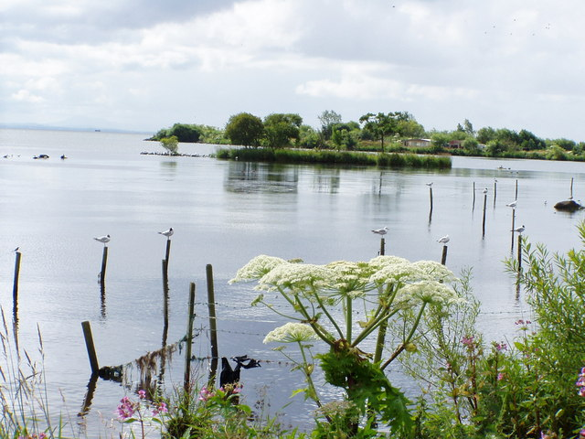 Lough Neagh Looking south east from Ballyronan Harbour car park